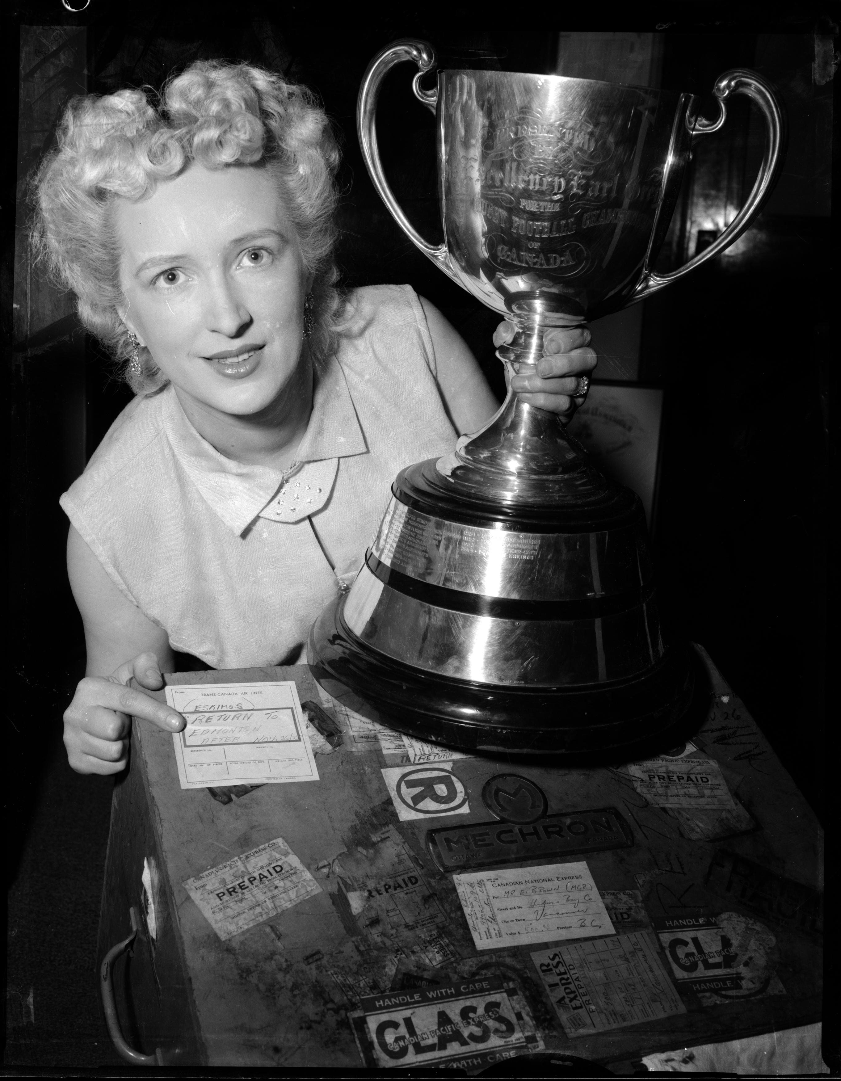 Woman with Grey Cup upon its arrival Vancouver VPL Accession Number: 43916 Date: November 18, 1955 Photographer/Studio: Province Newspaper Content: Montreal Alouettes vs Edmonton Eskimos Topic: Football Grey Cup Sports Organization: National Hockey League Location: British Columbia - Vancouver More information on our historical photograph collection